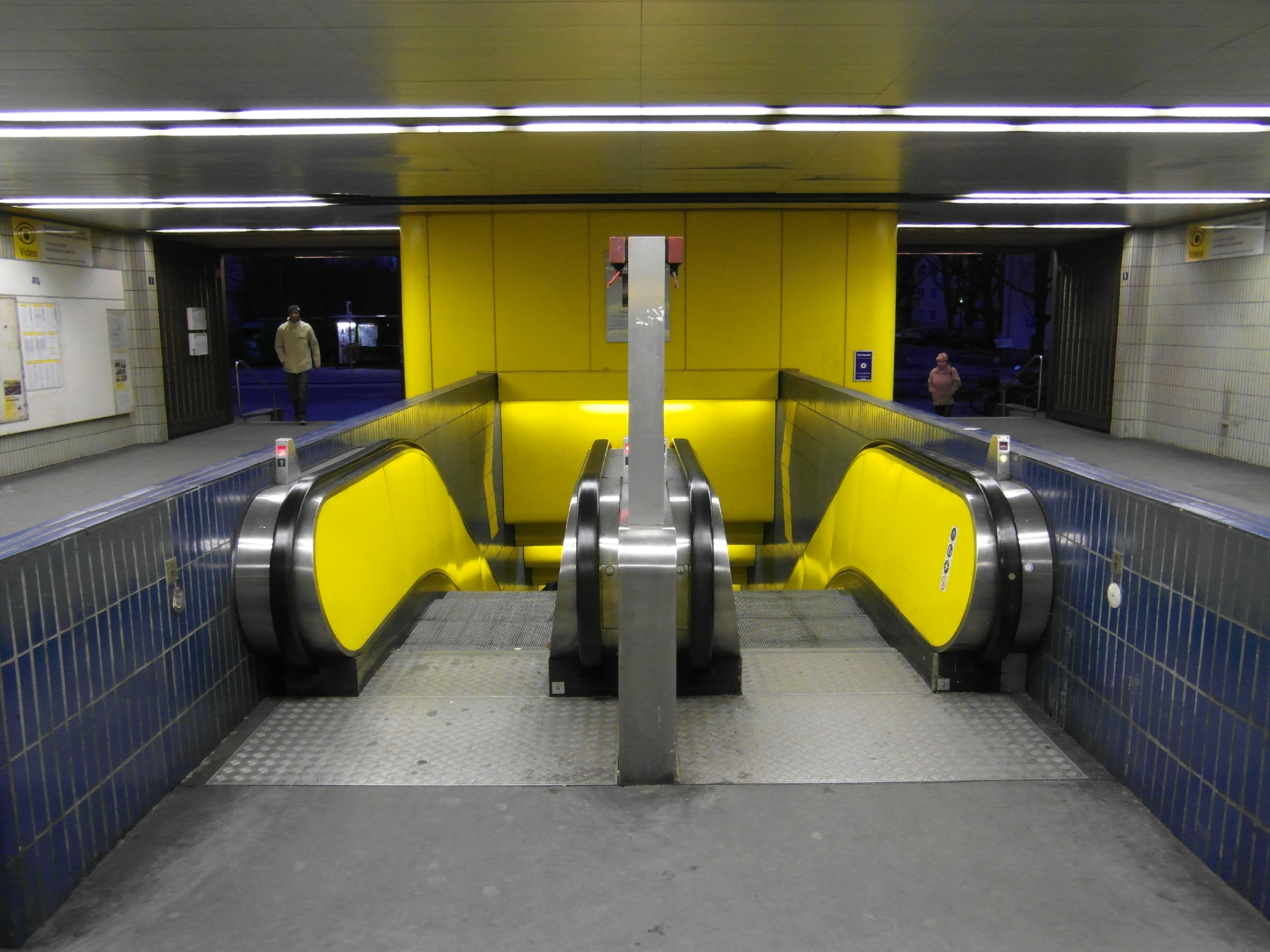 Halemweg underground station, Line U7, Berlin, Germany